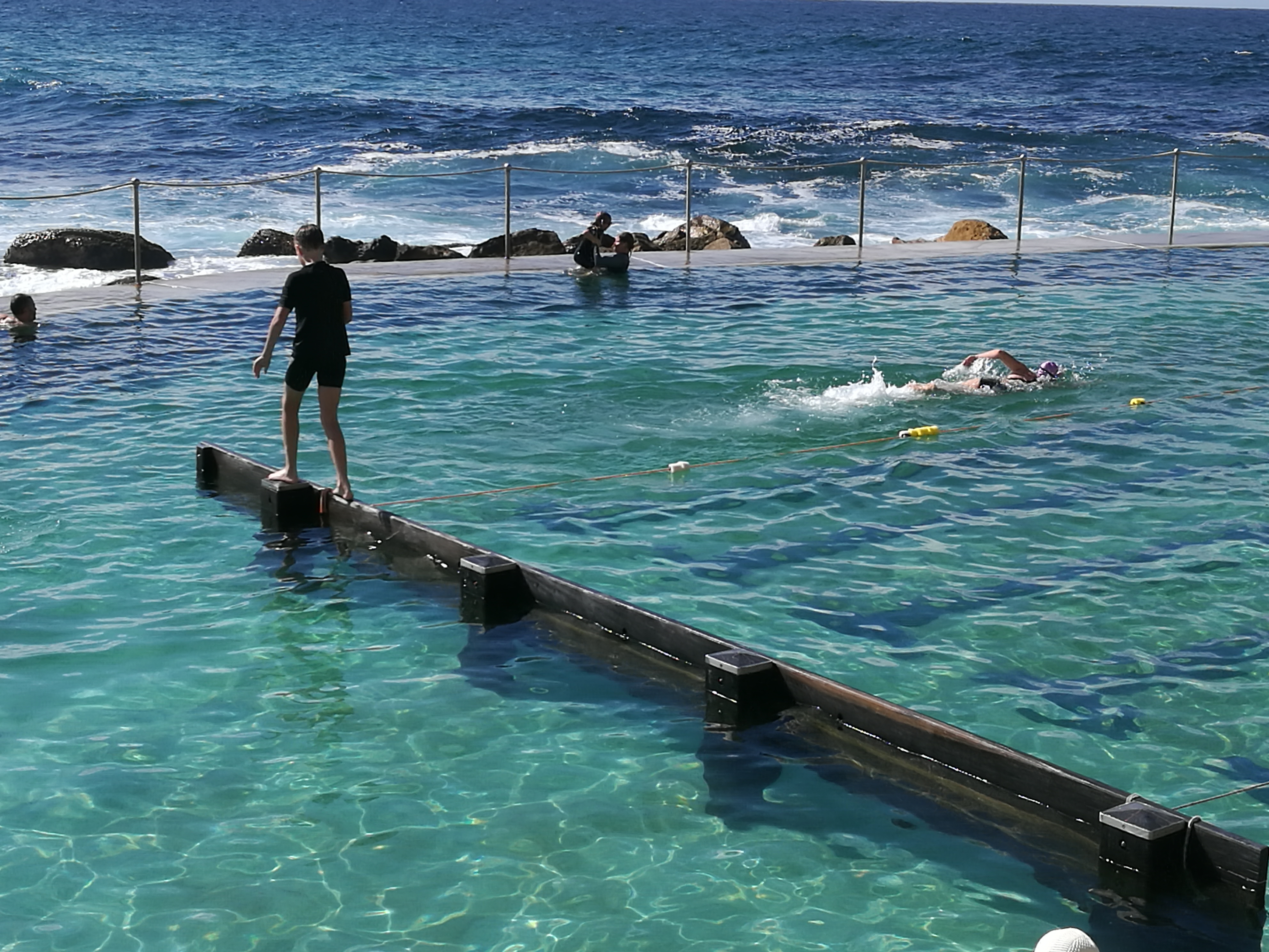 Bronte Baths, Sydney, Australia